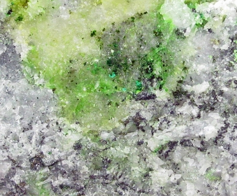 Xocomecatlite Locality: Trixie Mine (Trixie shaft; Old Trump prospect), East Tintic District, East Tintic Mts, Utah Co., Utah, USA Size: 6.0 cm x 5.4 cm x 2.8 cm Xocomecatlite is an extremely rare Cu-tellurate found at only seven localities worldwide (MINDAT). This rich and rare combination specimen is from the very obscure Au-Ag-Cu-Pb-Zn Trixie Mine of the East Tintic District of Utah. The sculptural quartz matrix wedge hosts bright and rich crusts and microcrystals of emerald-green xocomecatlite along with silvery grains of what appears to be hessite, not petzite and scattered flecks of free gold. Very rare combination material from this locale from the Dr. R.J. Bowell Collection.